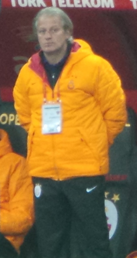 Tugay Kerimoğlu